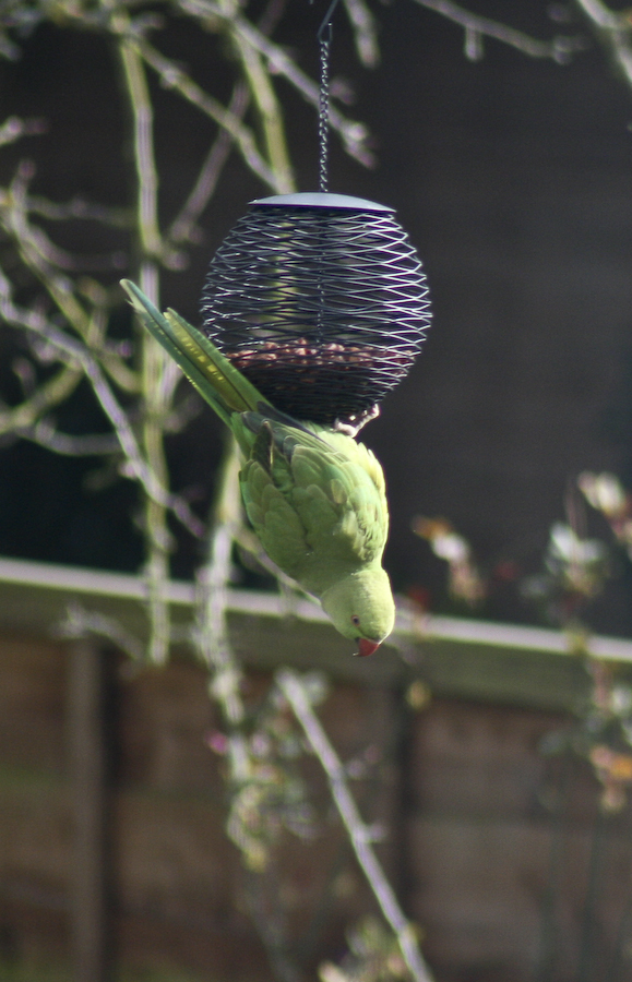 Feral Ringnecked Parakeet, Psittacula krameri on a bird feeder, in Bromley, London, England.